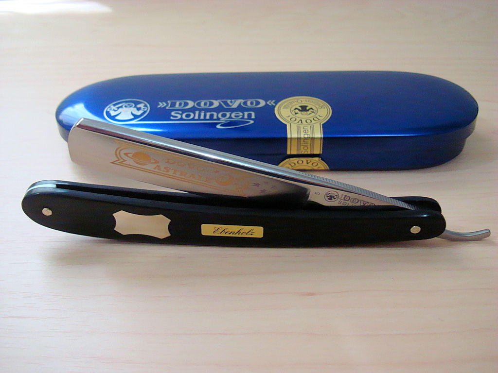 DOVO Solingen Straight Razor